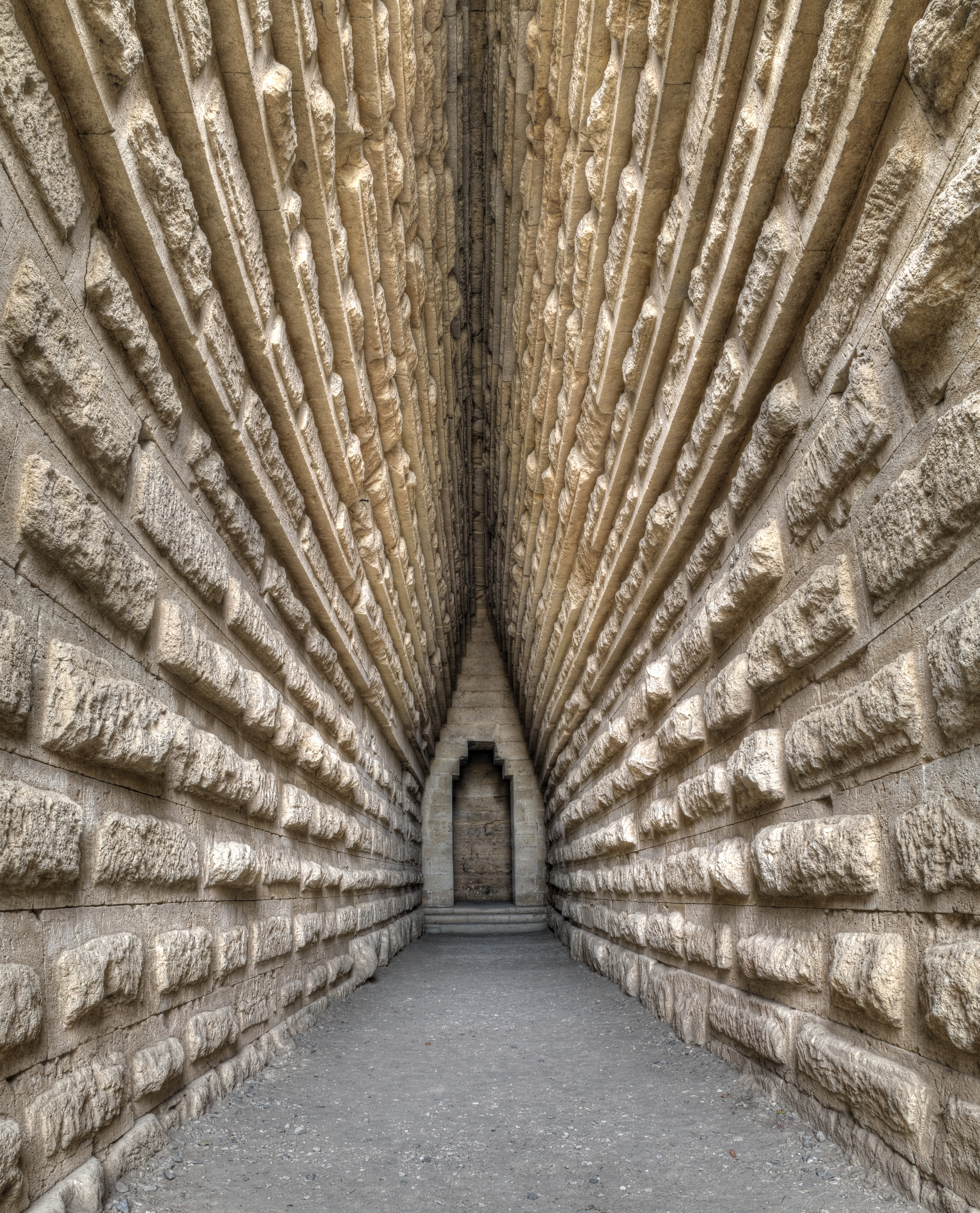 Tsarsky kurgan from 4th century BC, one of the best preserved burial places of Ancient Greek poleis (archeological monument №266). Kerch, Crimea, Ukraine